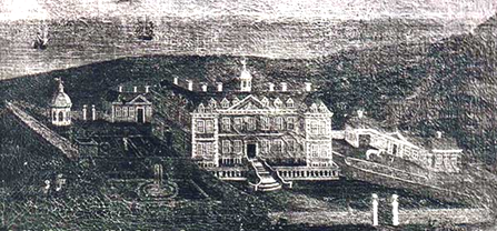 EnEngraving c.1670-1739 of Stowe House, Kilkhampton, collection of Peter Prideaux-Brune. This picture in 1903 was in the possession of Mrs. Waddon Martyn, at Tonacombe Manor (See illustration in Hawker, Robert S., Footprints of Former Men in Far Cornwall, London, 1903[1])